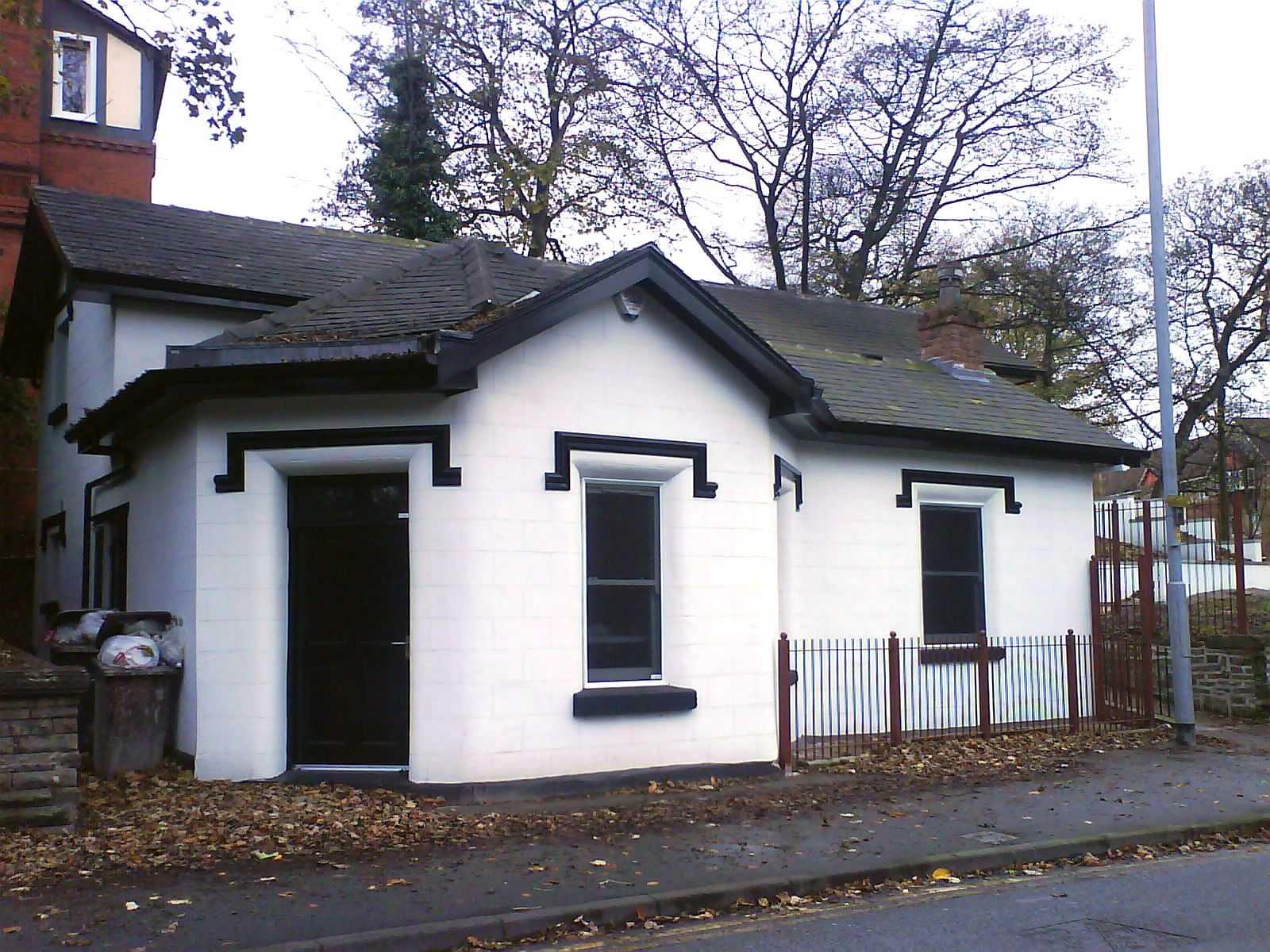 The former toll collector's house, Bury New Road, Kersal